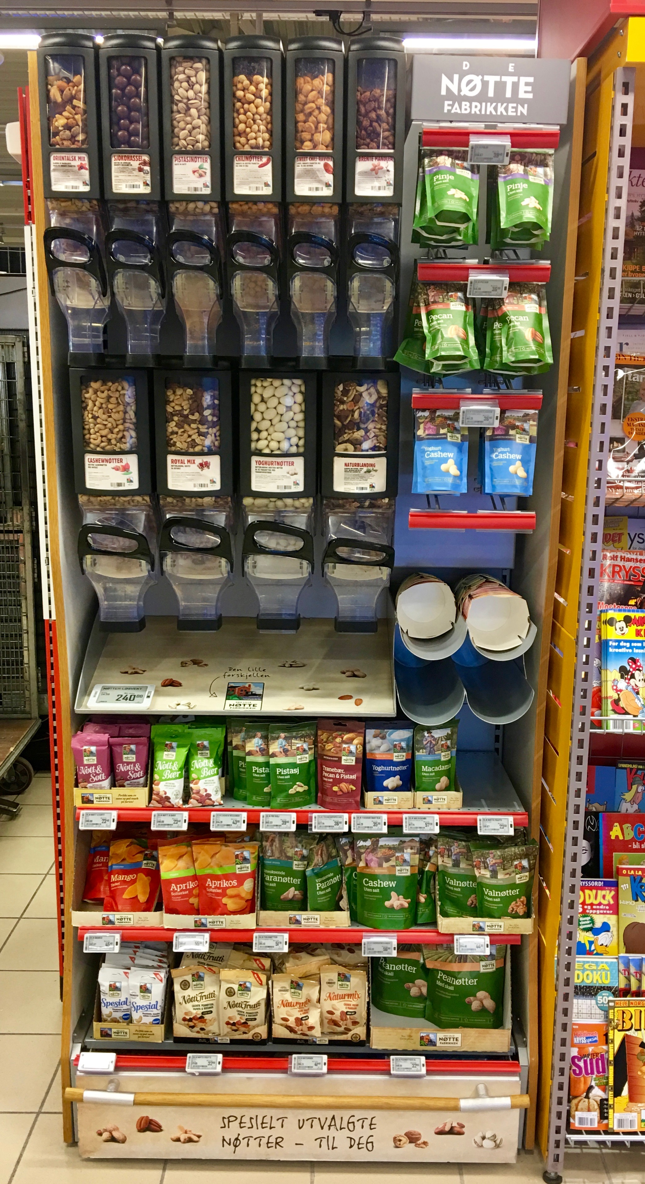 Rack display with mixed nuts and dried fruit products from Den lille nøttefabrikken for sale in Extra Coop (Norwegian discount supermarket chain) in Tjøme, Norway, November 2017.